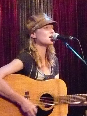 Claire Holley at a small club in Los Angeles